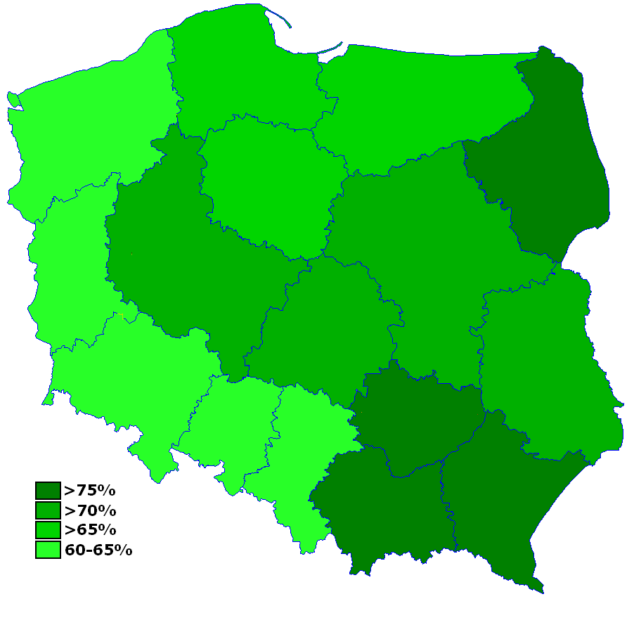 Religious marriages in Poland as a percent of all marriages; by voivodeships (2006)